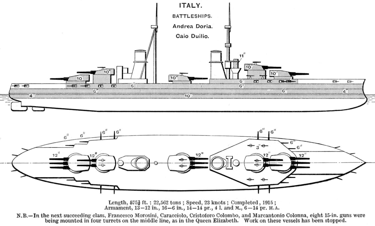 Right elevation and deck plan diagrams depicting Italian Andrea Doria class battleship.